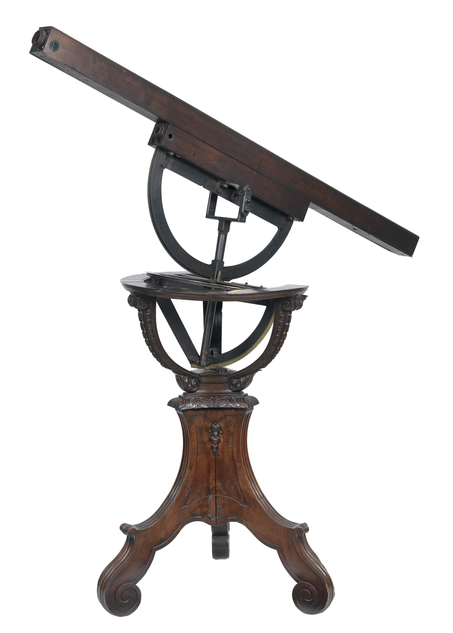 A double refracting wooden telescope on an equatorial mount. The telescope consists of a square wooden tube. Below the main telescope is a smaller sighting telescope. The telescope is inclined in altazimuth by a brass quadrant which has angles numbered on it. The quadrant is supported on a horizontal wood and brass numbered ring around which the telescope rotates and inclines to the vertical. There is a middle supporting structure made of iron. The whole structure is mounted on a mahogany support carved with acanthus decoration on its three legs and body.